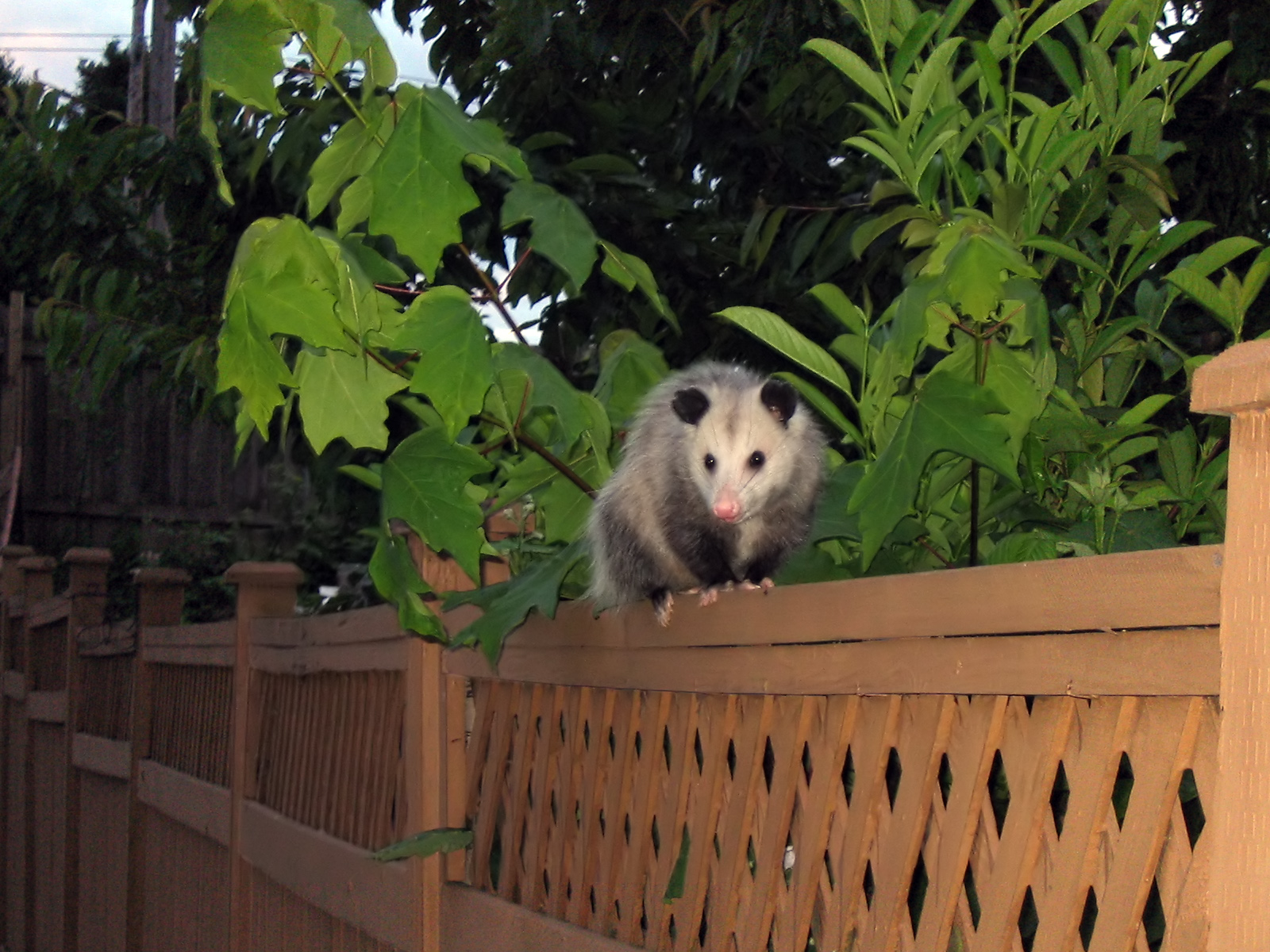 Virginia opossum (Didelphis virginiana) photographed in lower mainland area of western Canada.